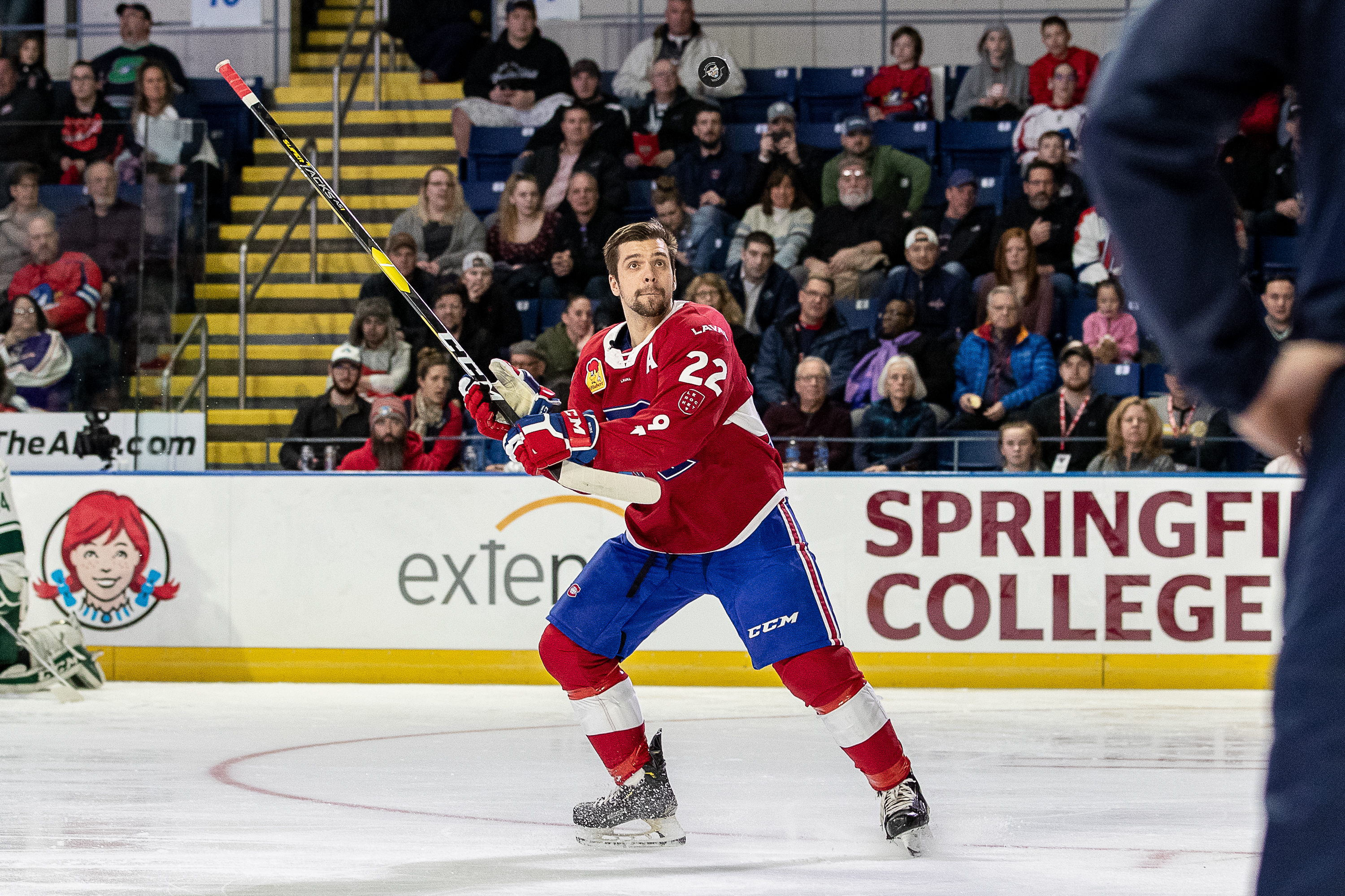 Photo BY: John McCreary / Champion City Sports